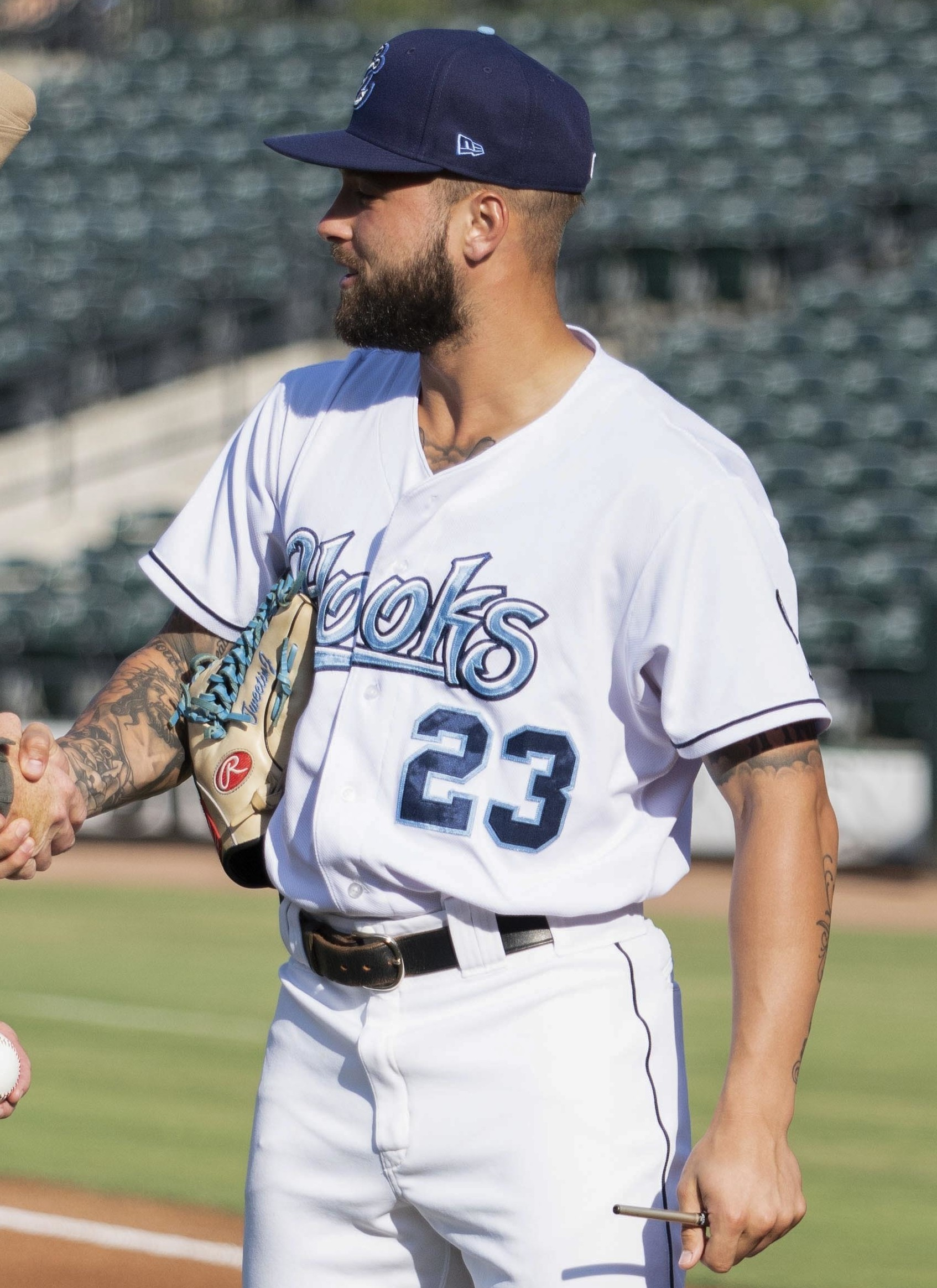 CORPUS CHRISTI, Texas (Aug. 15, 2019) Chief of Naval Air Training Rear Adm. Dan Dwyer shakes hands with Corpus Christi Hooks' first baseman J.J. Matijevic on August 15 after throwing out the ceremonial first pitch. Chief of Naval Air Training is responsible for the aviation training of all Navy, Marine Corps, and Coast Guard pilots, naval flight officers, and naval aircrewmen. (U.S. Navy photo by Anne Owens/Released) 190815-N-OT909-1117